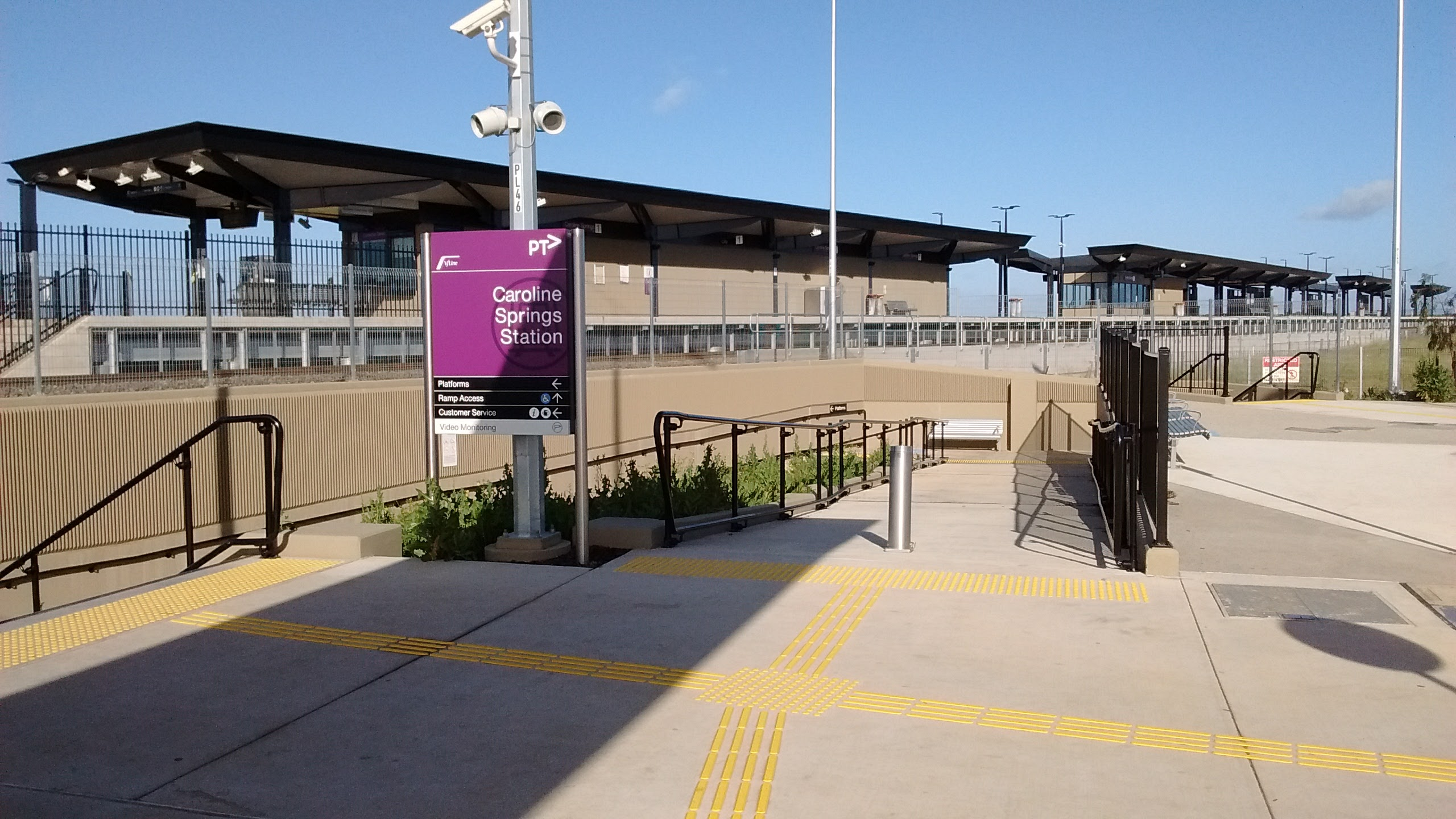 Caroline Springs railway station, Melbourne.